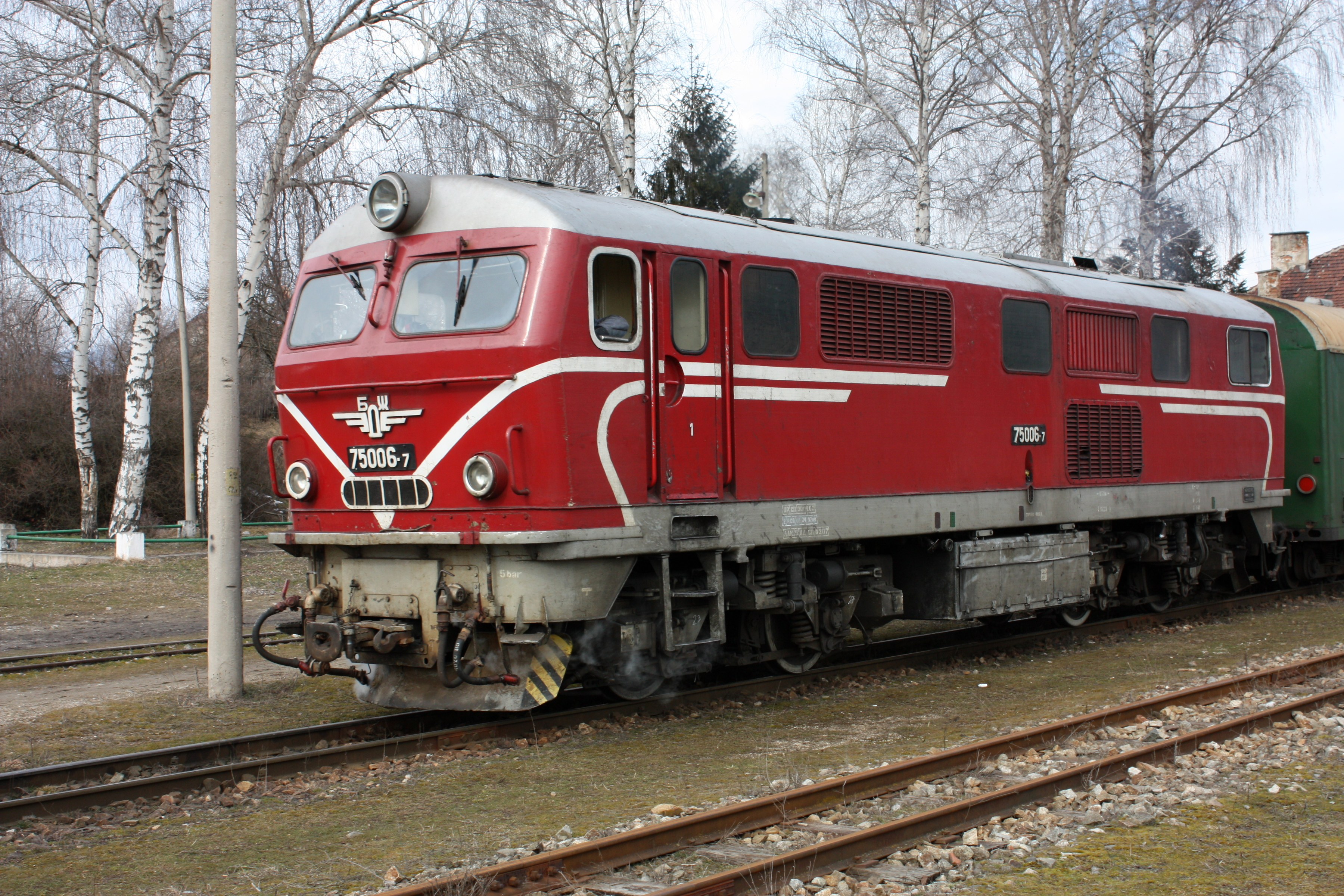 Henschel Diesel locomotive 75006-7 of the narrow gauge railway Septemvri-Dobrinishte. Train Station Belitsa.